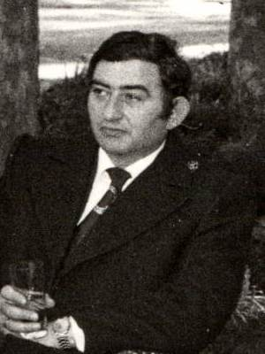 Inventarski broj: 1975 573 016